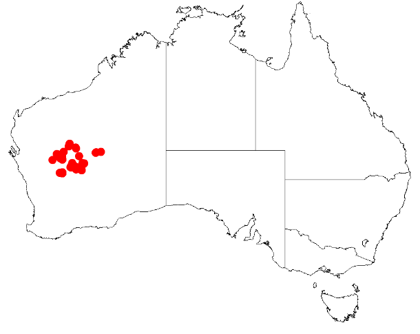 Acacia xanthocarpa Occurrence data from Australasia Virtual Herbarium downloaded from on 8 December 2018